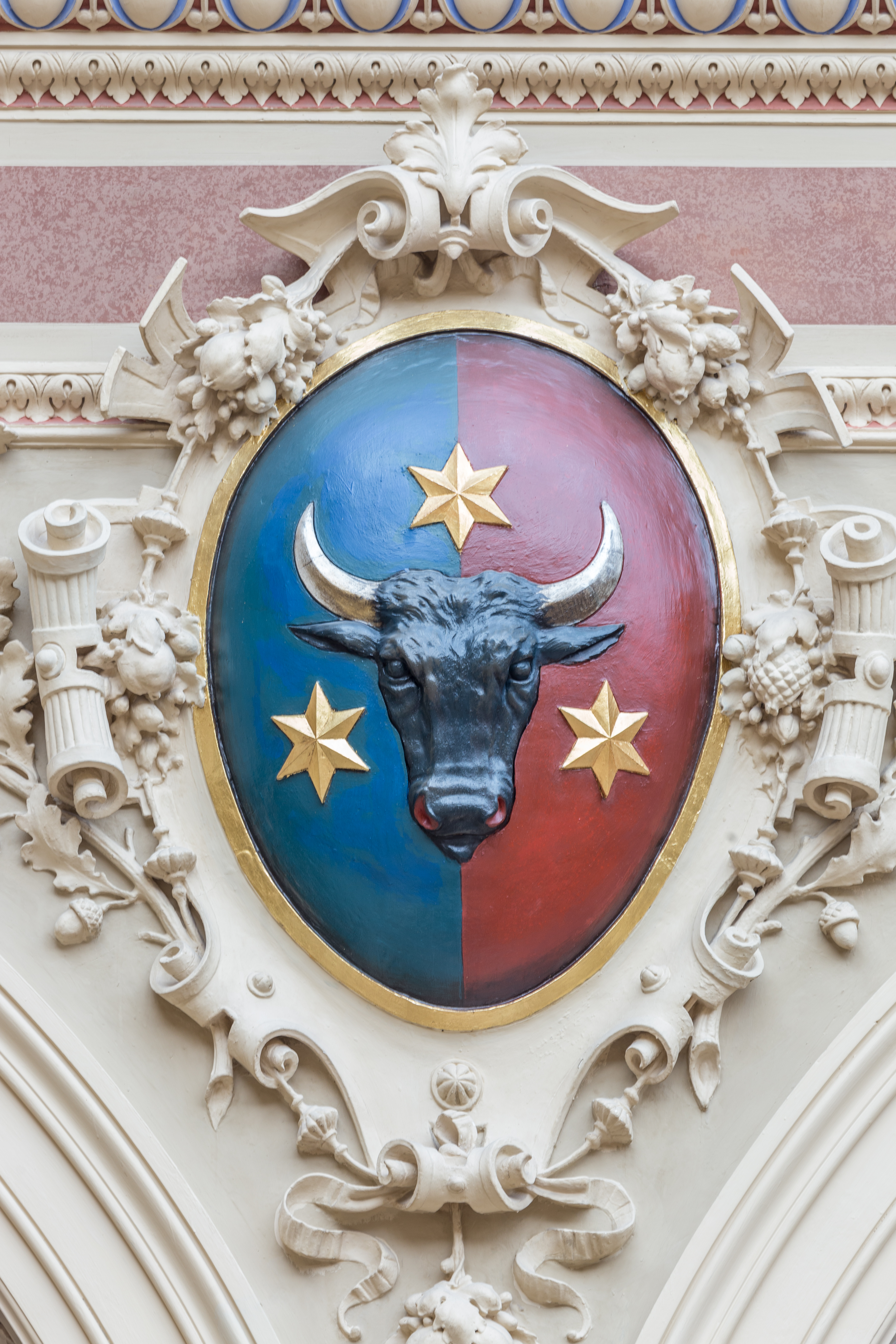 Coat of arms of the countries, which were part of the Imperial Council (Austria), Assembly hall in the Palace of Justice, Vienna